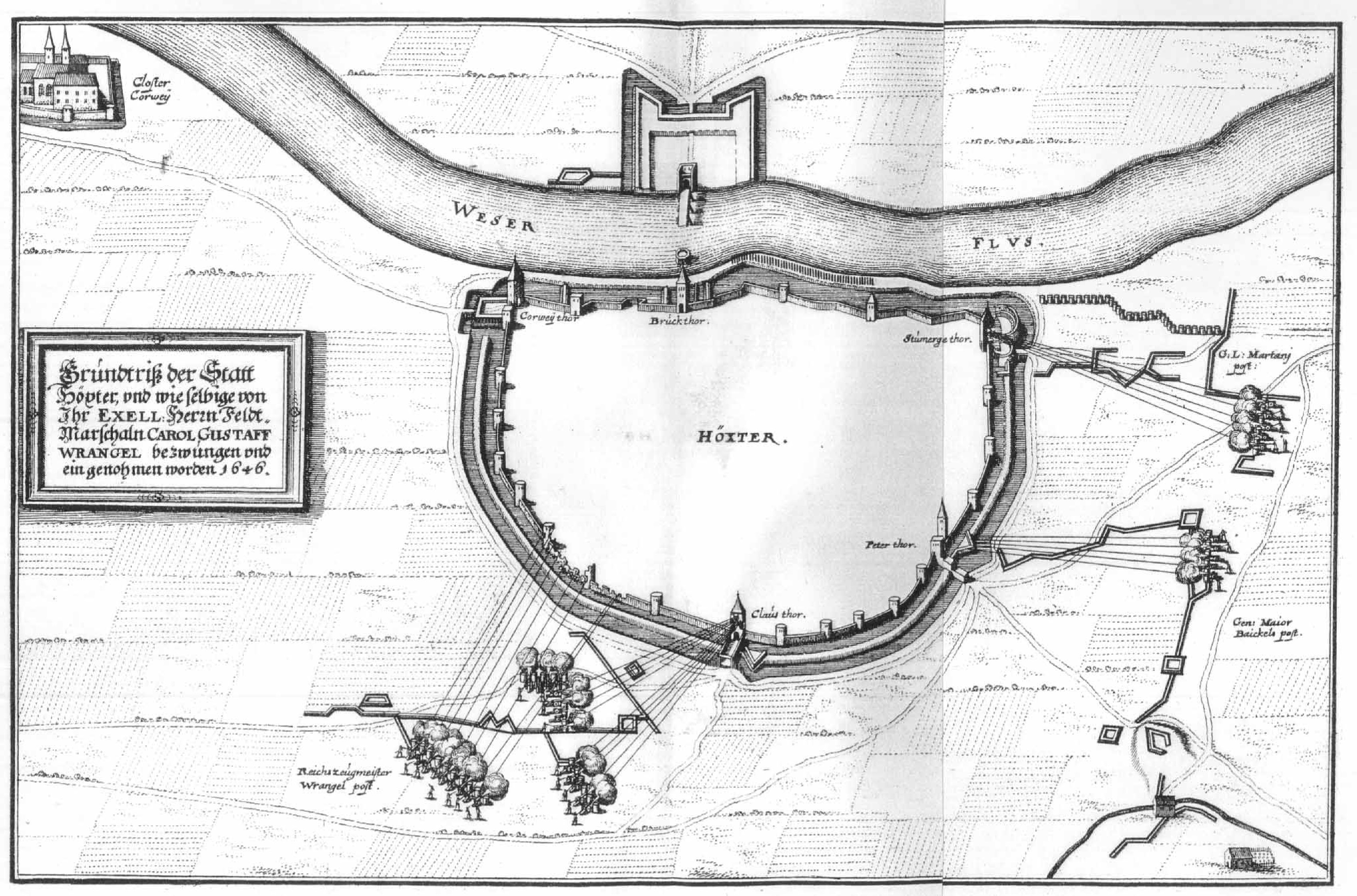 This is a scan of the historical document